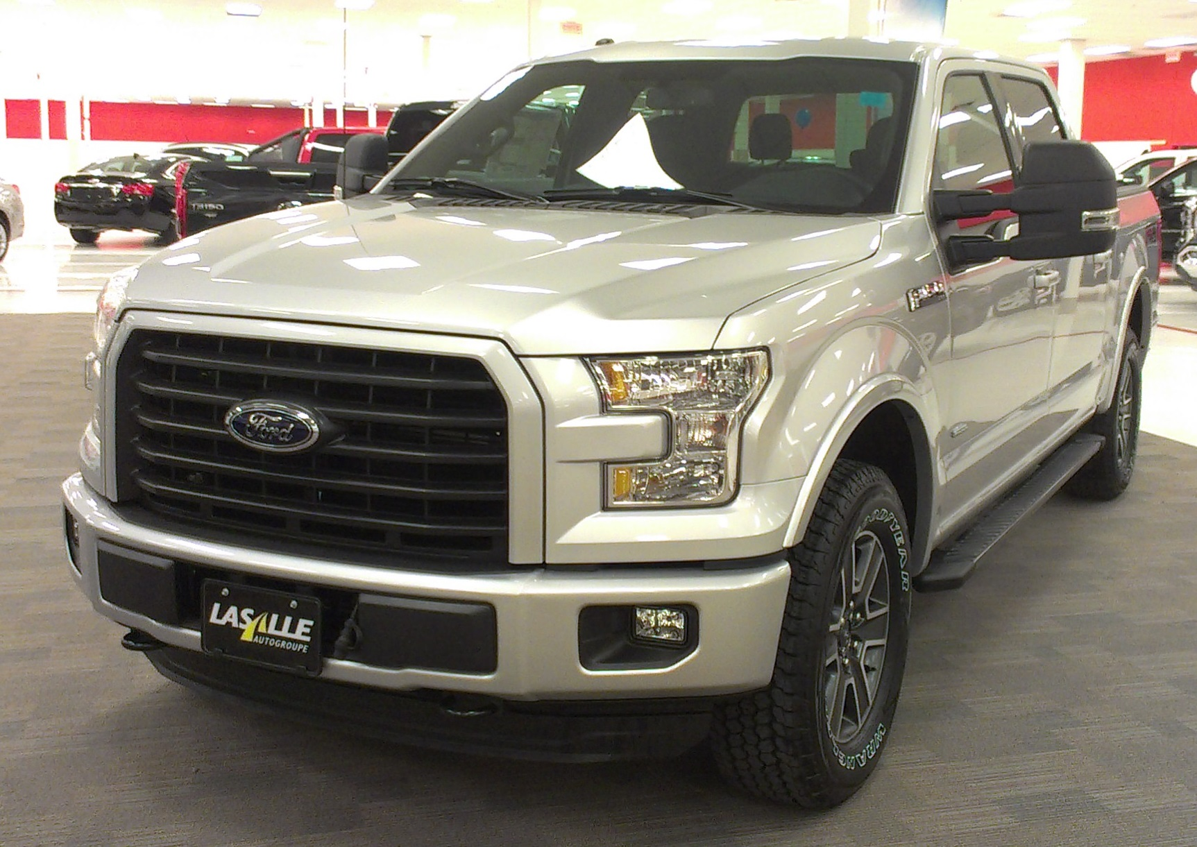 2016 Ford F-150 photographed in Montreal, Quebec, Canada at the Carrefour Angrignon auto show that was located where Target was.